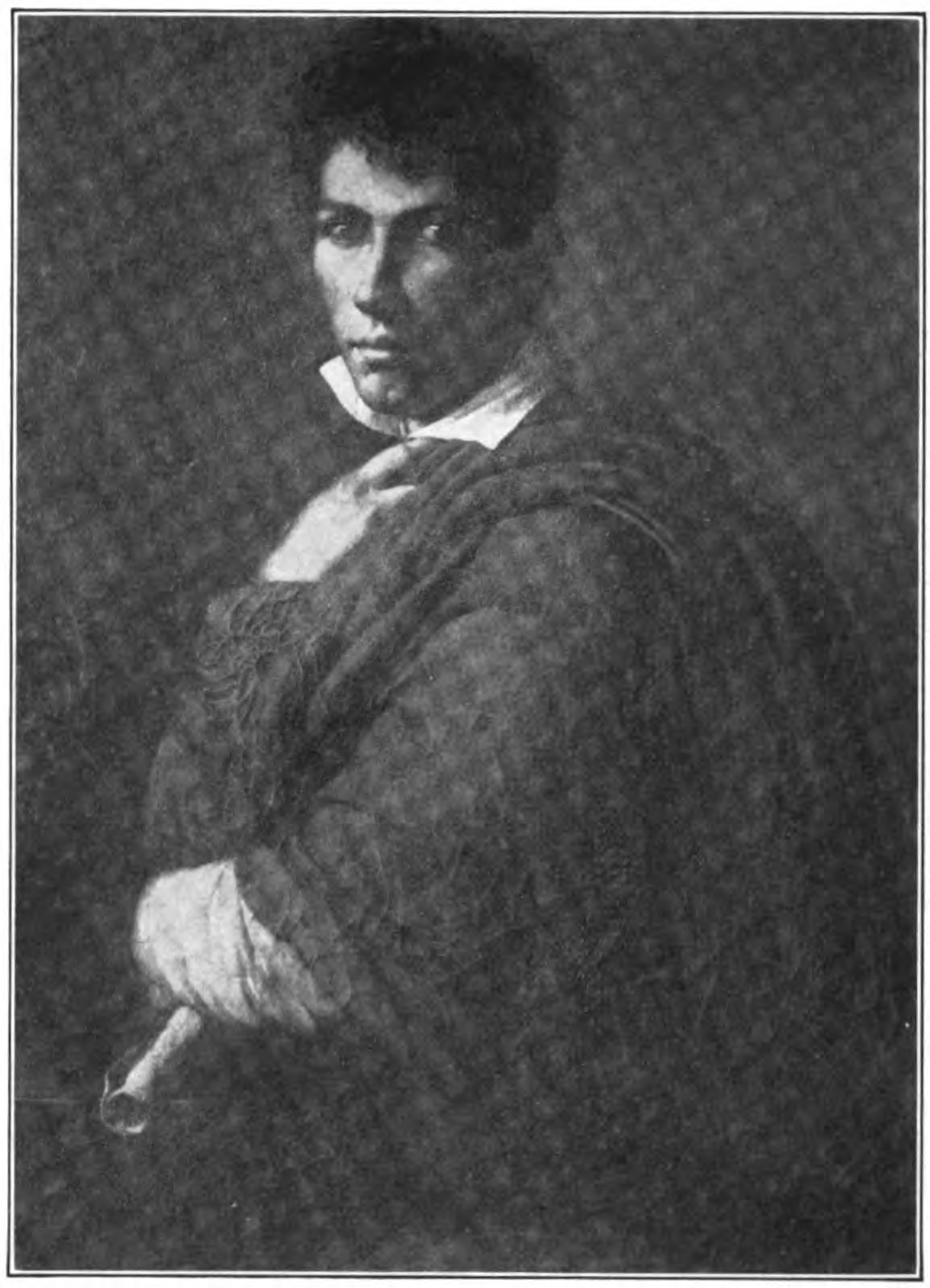 Self-portrait by Piero Bonanni